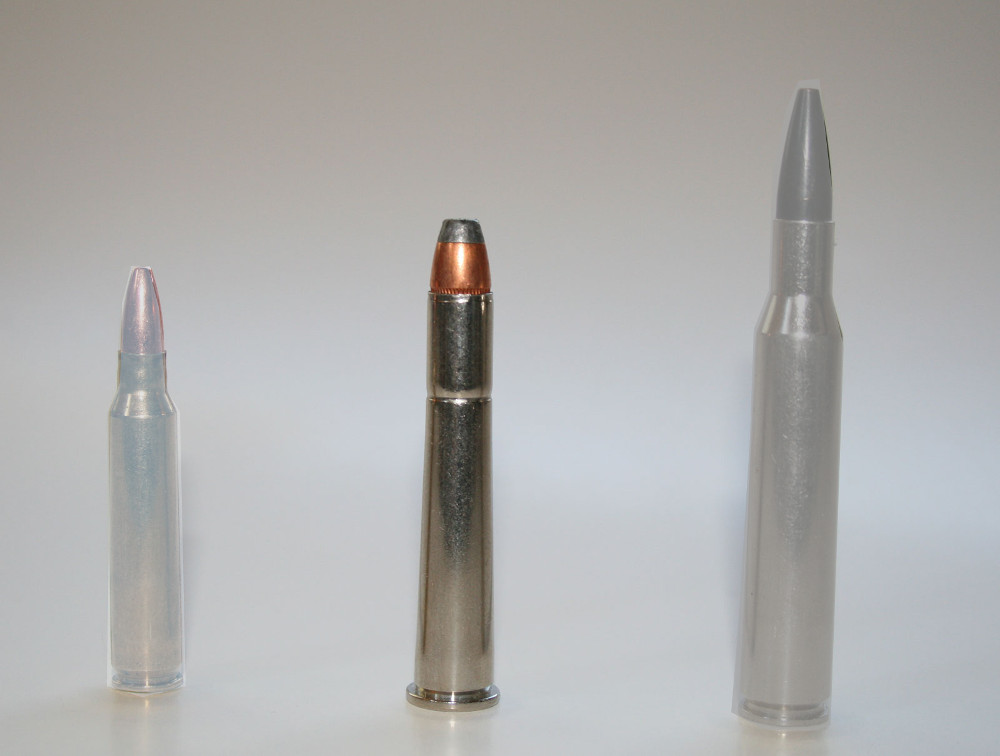 Cartridge 32-40ballard (center) compared with 223remmington (left) and 270winchester (right)